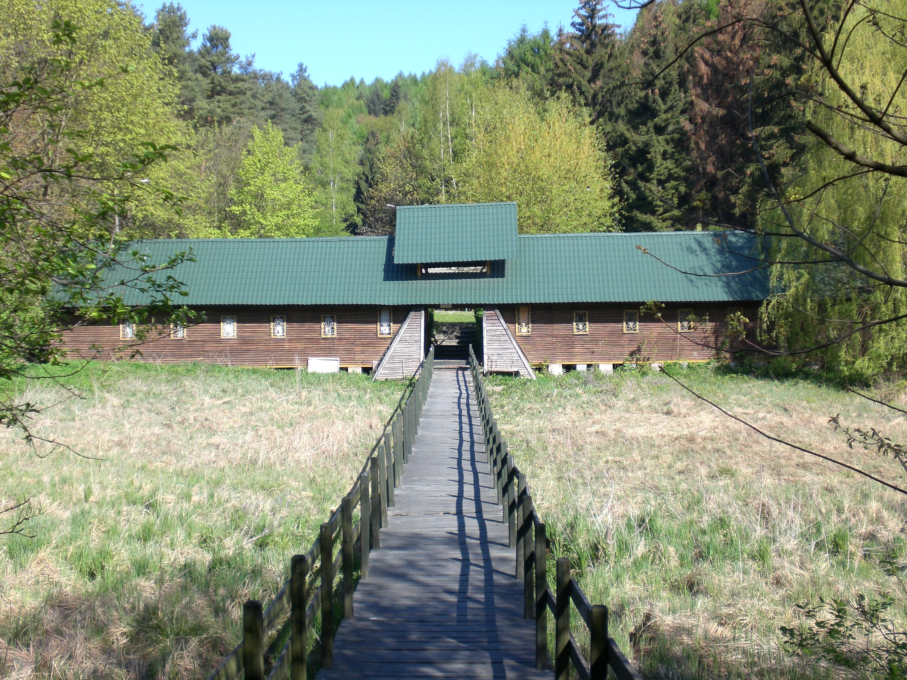 Jaśkowa Dolina Street in Gdańsk.